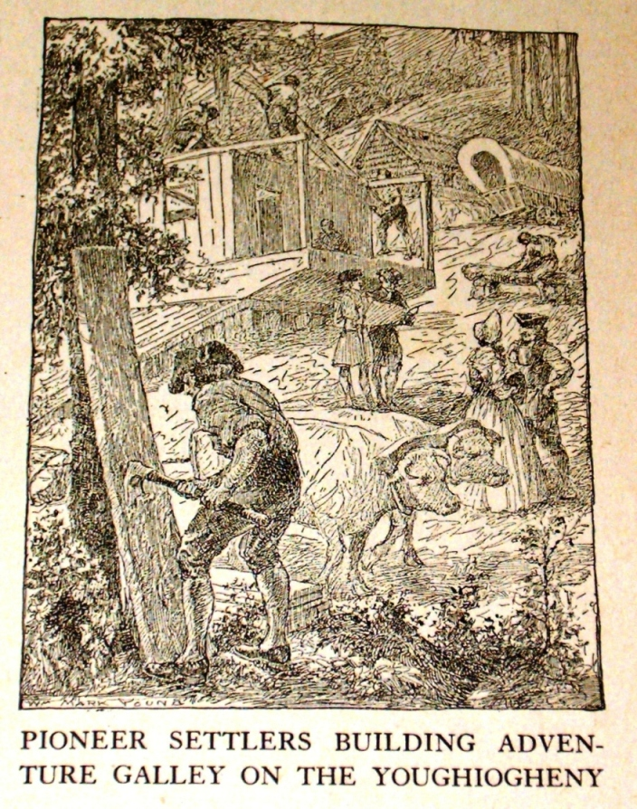 Adventure Galley flatboat - “Pioneer Settlers building Adventure Galley on the Youghiogheny”. The image is from the publication, History of the Ordinance of 1787 and the Old Northwest Territory (A Supplemental Text for School Use), Northwest Territory Celebration Commission, Marietta, Ohio (1937). One party of American pioneers to the Northwest Territory departed from the towns of Ipswich, Massachusetts and Danvers, Massachusetts on December 3, 1787; the other party departed from Hartford, Connecticut on January 1, 1788. The pioneers crossed the mountains and met at Sumrill’s Ferry, near present-day West Newton, Pennsylvania on the Youghiogheny River. During the bitterly cold winter, the men built two flatboats, the forty-five ton ‘Adventure Galley’ also known as the ‘Mayflower’ in honor of their Pilgrim ancestors, and the three-ton ‘Adelphia’. They also built three log canoes. This small fleet of boats carried the pioneers down the Youghiogheny River to the Monongahela River, and then to the Ohio River, and onward to the Ohio Country and the Northwest Territory. They arrived at their final destination, the mouth of the Muskingum River at the confluence of the Ohio and Muskingum rivers, on April 7, 1788. ColWilliam (talk) 00:08, 11 May 2008 (UTC)